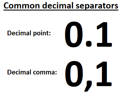 Common decimal separatorsː The period and comma (decimal point and decimal comma) are the two most commonly used types of decimal separators in the world. Either is also sometimes used in combination with the other, with one acting as a decimal separator and the other as a digit grouping separator (most commonly thousands separator). However, since 2003 SI recommends a space being used as a thousands separator, with either the decimal point or decimal comma as the decimal separator.